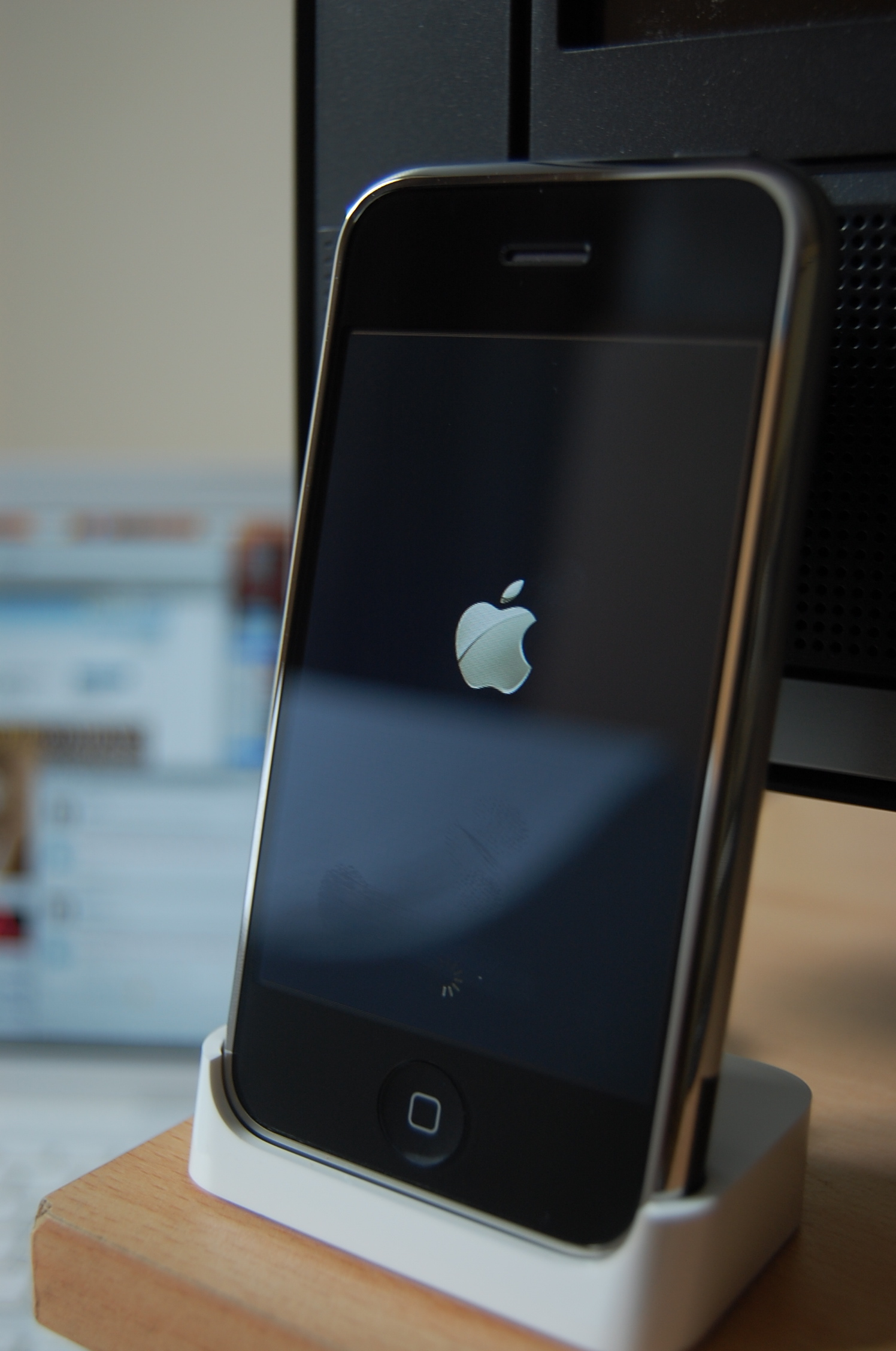 Original iPhone in dock, restarting.